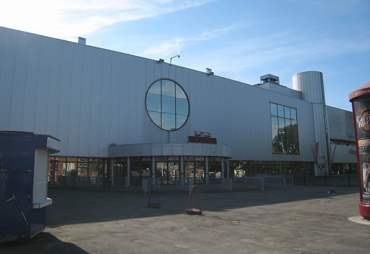 The front of Forest National, Brussels